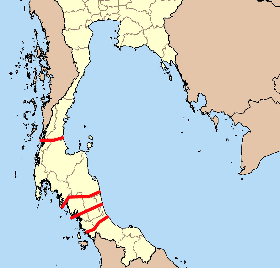 A blank map of Thailand with the provinces outlined. Copyright © User:Ahoerstemeier.